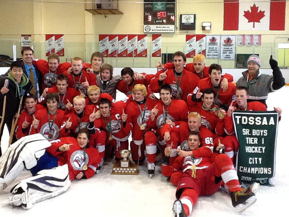 North Toronto C.I. TDSSAA City Champions, March 2012. Members of the team: Back row, Left to Right: Ryan Maeda, Coach Taylor, Jack Hull, Rhys Evenson, David Lewis, Aric Smith, Kienan McLellan, Patrick Dollard, Jesse Erdos Rush, Andrew Ezer, Coach Russell. Middle Row(s) Left to Right: Max Zworth, Sean Larsen, Danny Reynolds, Dillon Stanway, Michael Hood, Nick Giancola, Brian Hamm, Spencer Allen, Chris Toufexis, Jarrett Wilkinson (with banner). Front Row: Evan Morse, Mark McGregor, Tom Gazzard.